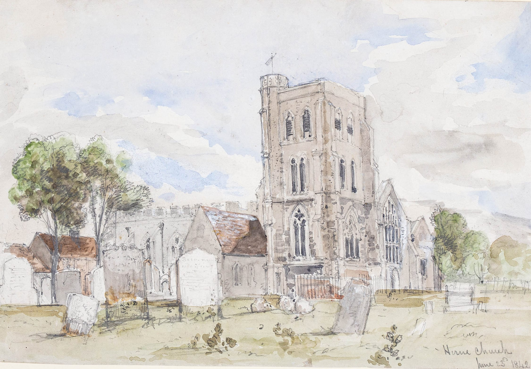 Offered for sale in November 2019 by Abbott and Holder, when it was described as "KENT (subject) Anon. 1842. ‘Herne Church’. Pencil, watercolour and gouache. Inscribed and dated, 23rd June 1842. Provenance: Album of Ebenezer Landells studies. 7.25x10.75 inches."